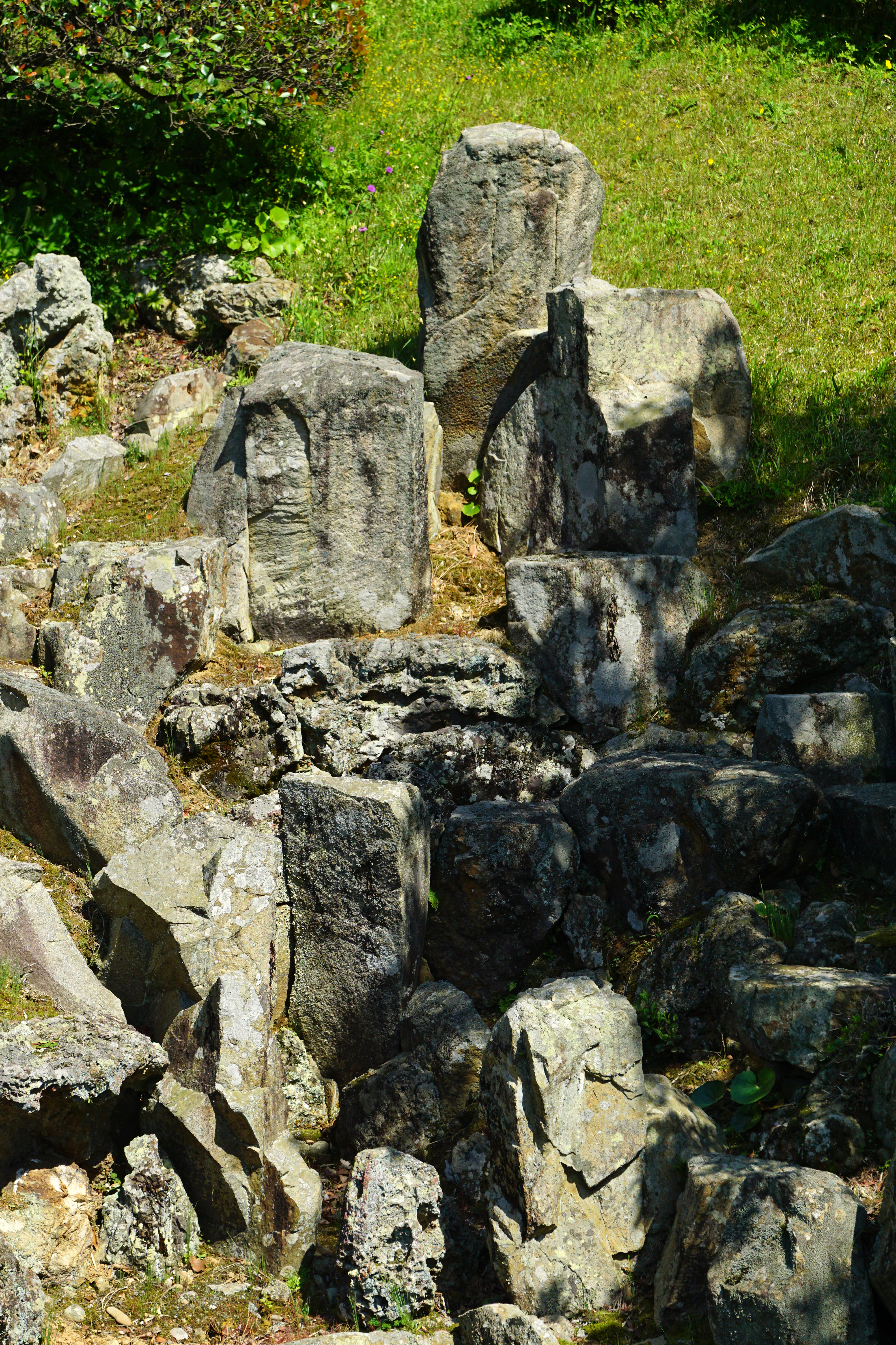 Ogawa-ke_Sesshu_Garden, Gotsu, Shimane prefecture, Japan